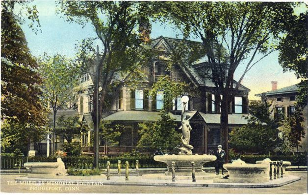 Wheeler Memorial Fountain, built in 1912 at the intersection of Park and Fairfield Avenues, in Bridgeport, Connecticut. Also shows the now-demolished residence of Isaac W. Birdseye, designed c.1886 by local architect Joseph W. Northrop.